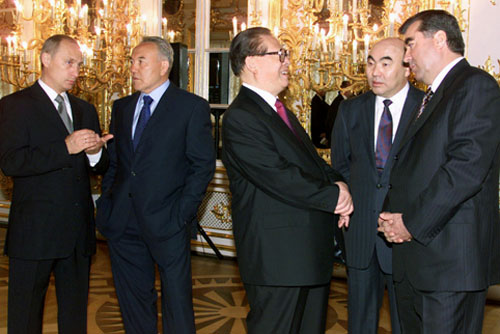 Former Russian President Vladimir Putin, Kazakh President Nursultan Nazarbayev, Former Chinese President Jiang Zemin, Former Kyrgyz President Askar Akayev, and Tajik President Emomali Rakhmonov, the original leaders of the Shanghai Five.